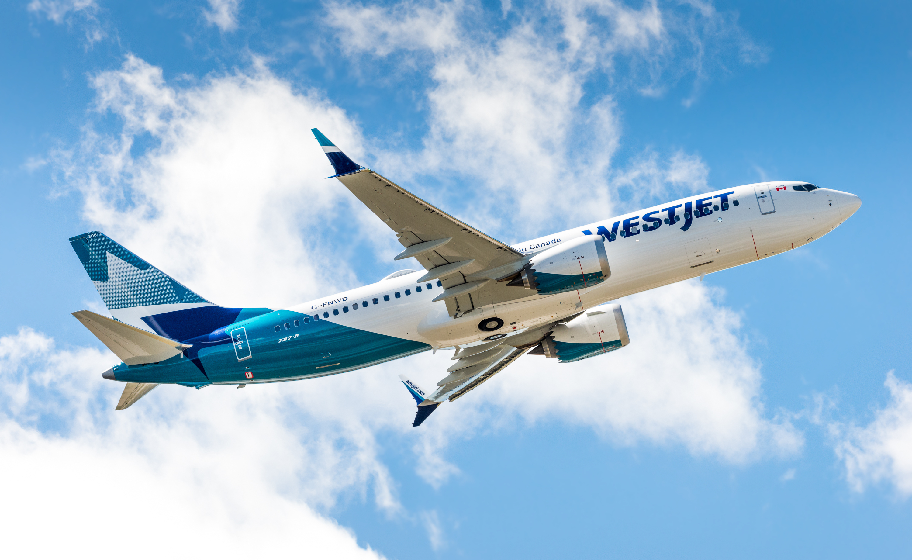 WestJet Airlines Boeing 737 MAX 8 at Calgary International Airport.